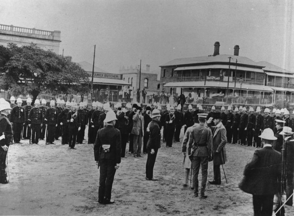 Presentation of medals to ex-members of the Queensland Police Force, Petrie Terrace, 1909. Presentation of Imperial Service Medals to nine ex-members of the Queensland Police Force by his Excellency the Governor - one of the last public functions to be attended by Lord Chelmsford. (Description supplied with photograph.) The uniformed men wearing white helmets are members of the Queensland Police Force. The two storey building on the right, a hotel, is on the corner of Petrie Tce and Caxton St.